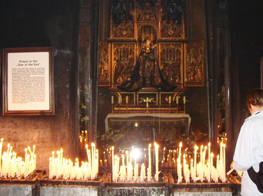 Basilica of Our Lady, Maastricht, the Netherlands. Chapel of Our Lady, Star of the Sea.